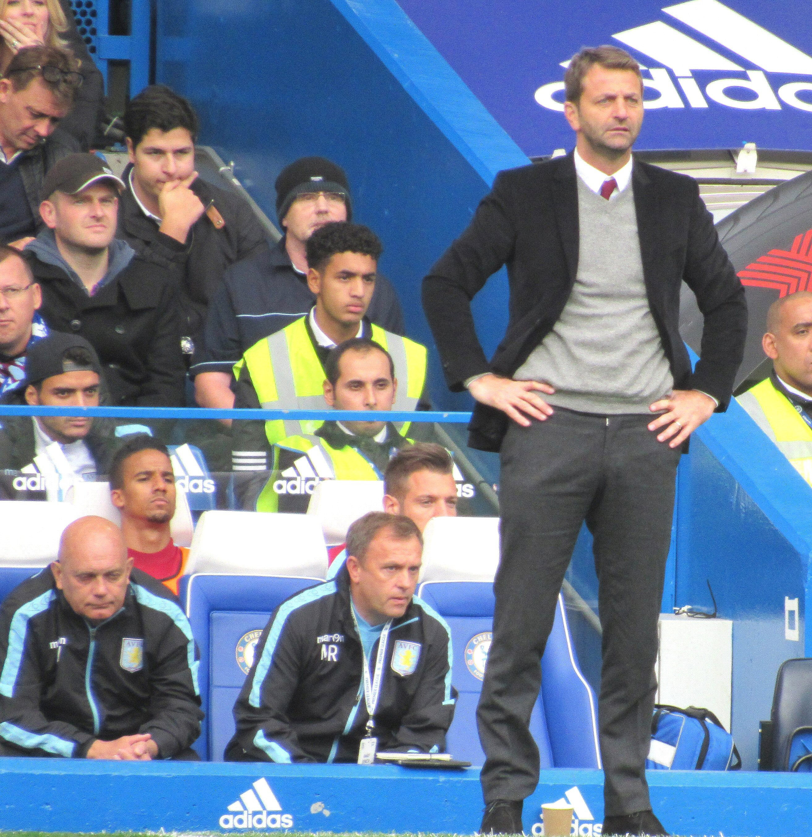 Tim Sherwood on the touchline away to Chelsea October 2015